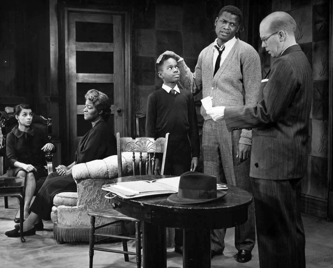 Photo of a scene from the play A Raisin in the Sun. From left-Ruby Dee (Ruth Younger), Lena Younger (Claudia McNeil), Glynn Turman (Travis Younger), Sidney Poitier (Walter Younger) and John Fielder (Karl Lindner). All shown except Turman reprised their roles in the 1961 film version.